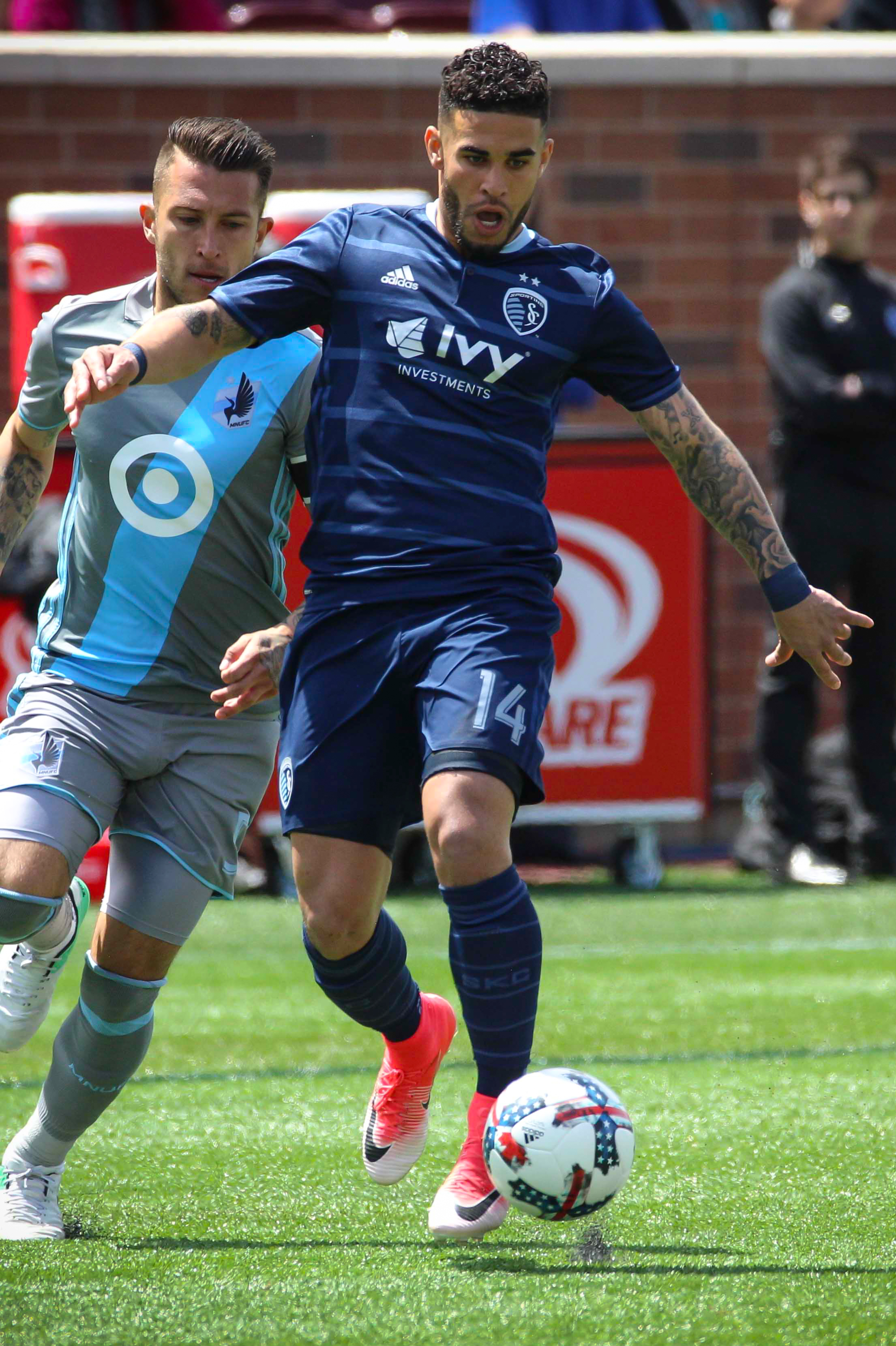 Dom Dwyer